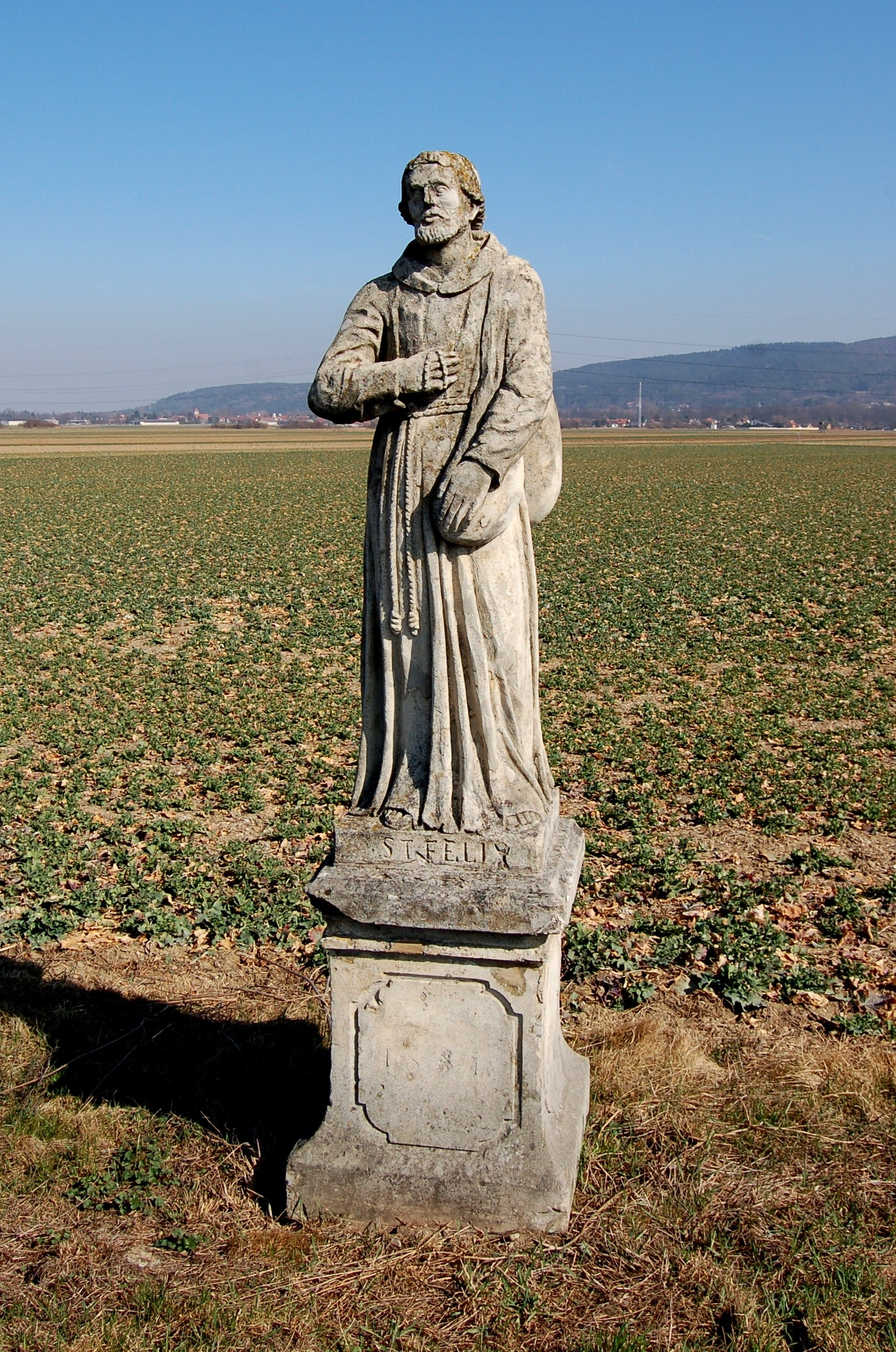 Wayside sculpture of St. Felix near Lanzenkirchen, Lower Austria